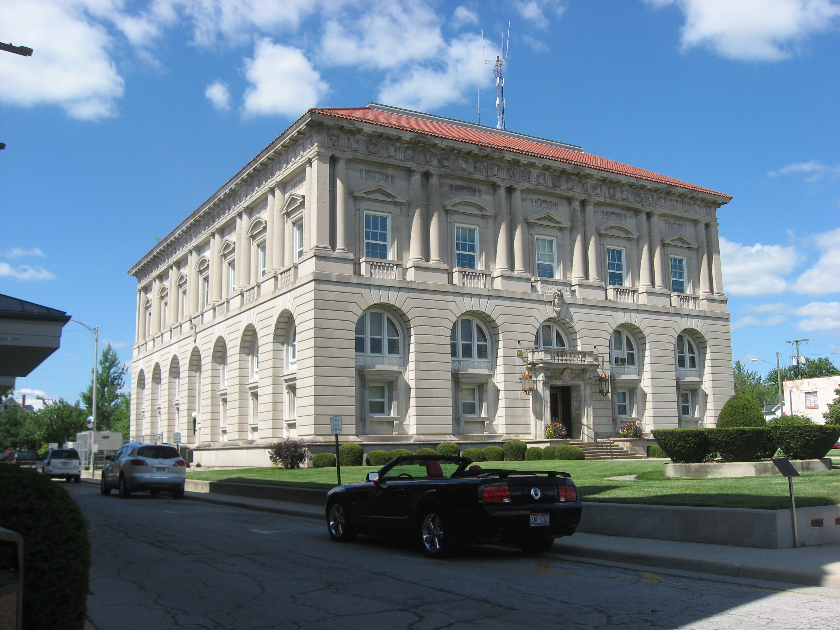 Southern and western sides of the Putnam County Courthouse, located at 245 E. Main Street (U.S. Route 224) in downtown Ottawa, Ohio, United States. Built in 1912, it is listed on the National Register of Historic Places.